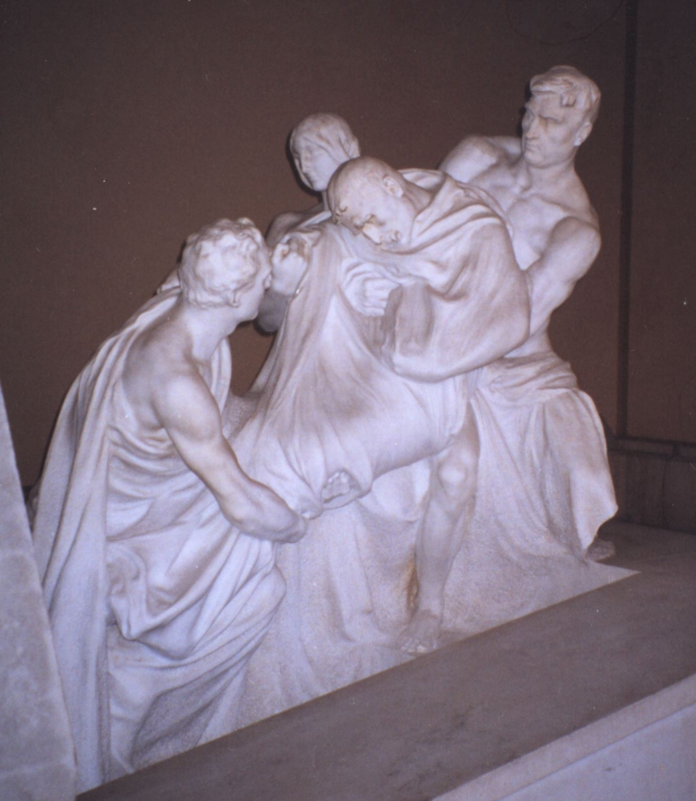 Tomb of José Canalejas Méndez at the Panteón de Hombres Ilustres in Atocha, Madrid, Spain. Is it by Mariano Benlliure? Copyright User:Error 2005.